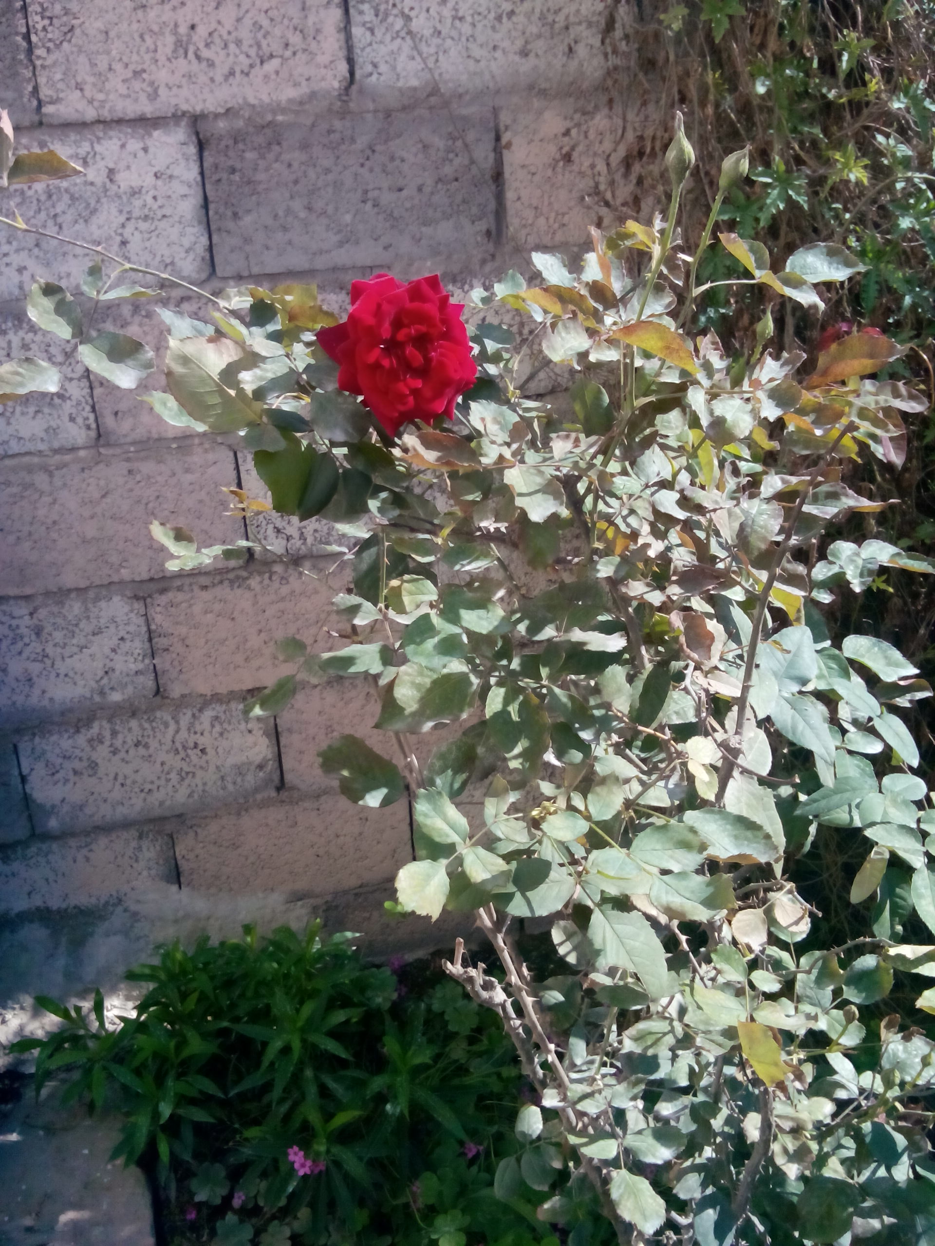 Red Flower's in Baghdad